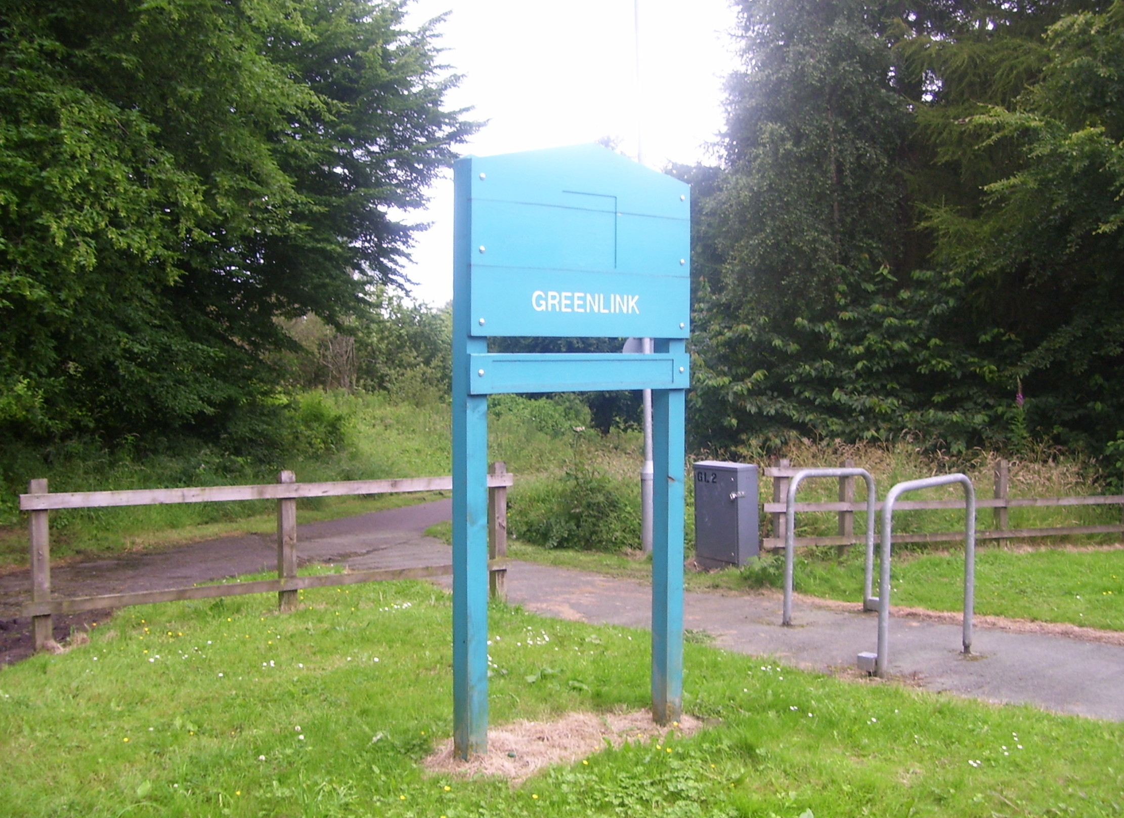 Greenlink Cycleway